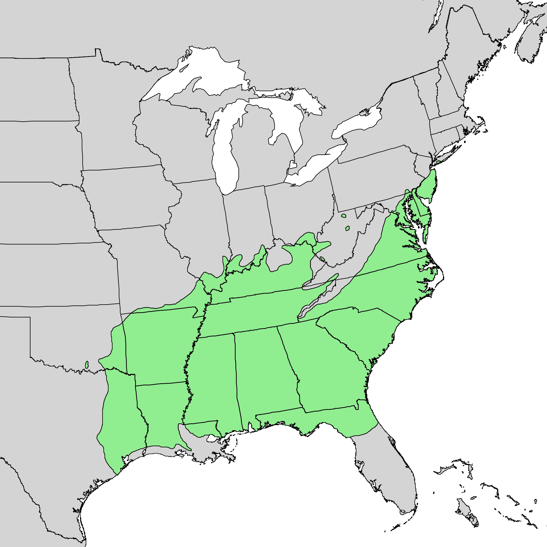 Quercus falcata range map.